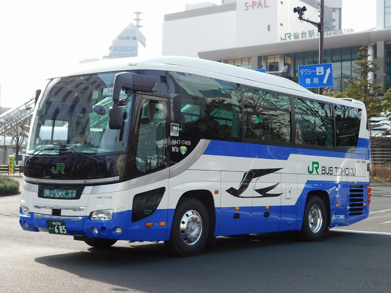 JR bus Tohoku Hino S'elega highdecker short (2KG-RU2AHDA)